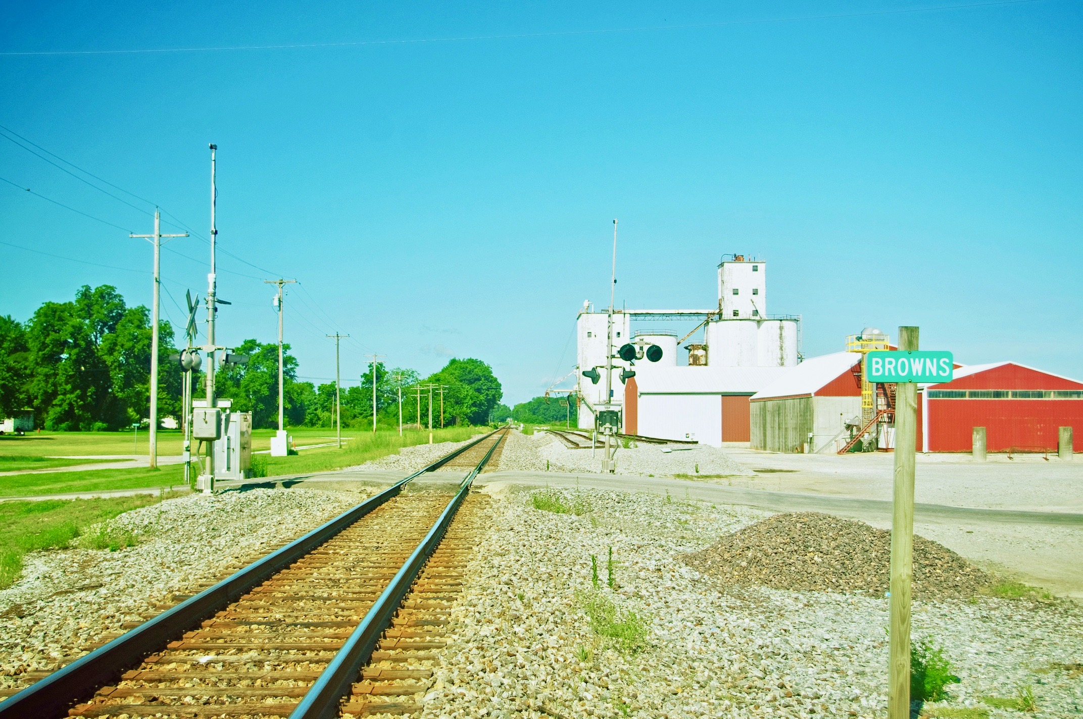 Norfolk Southern tracks passing through Browns, Illinois, United States.